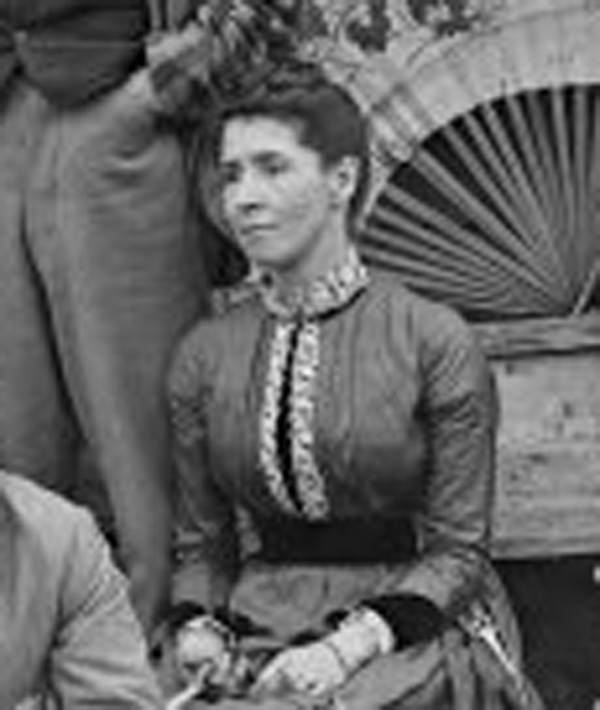 Nina Farrer, wife of William Farrer, circa 1890